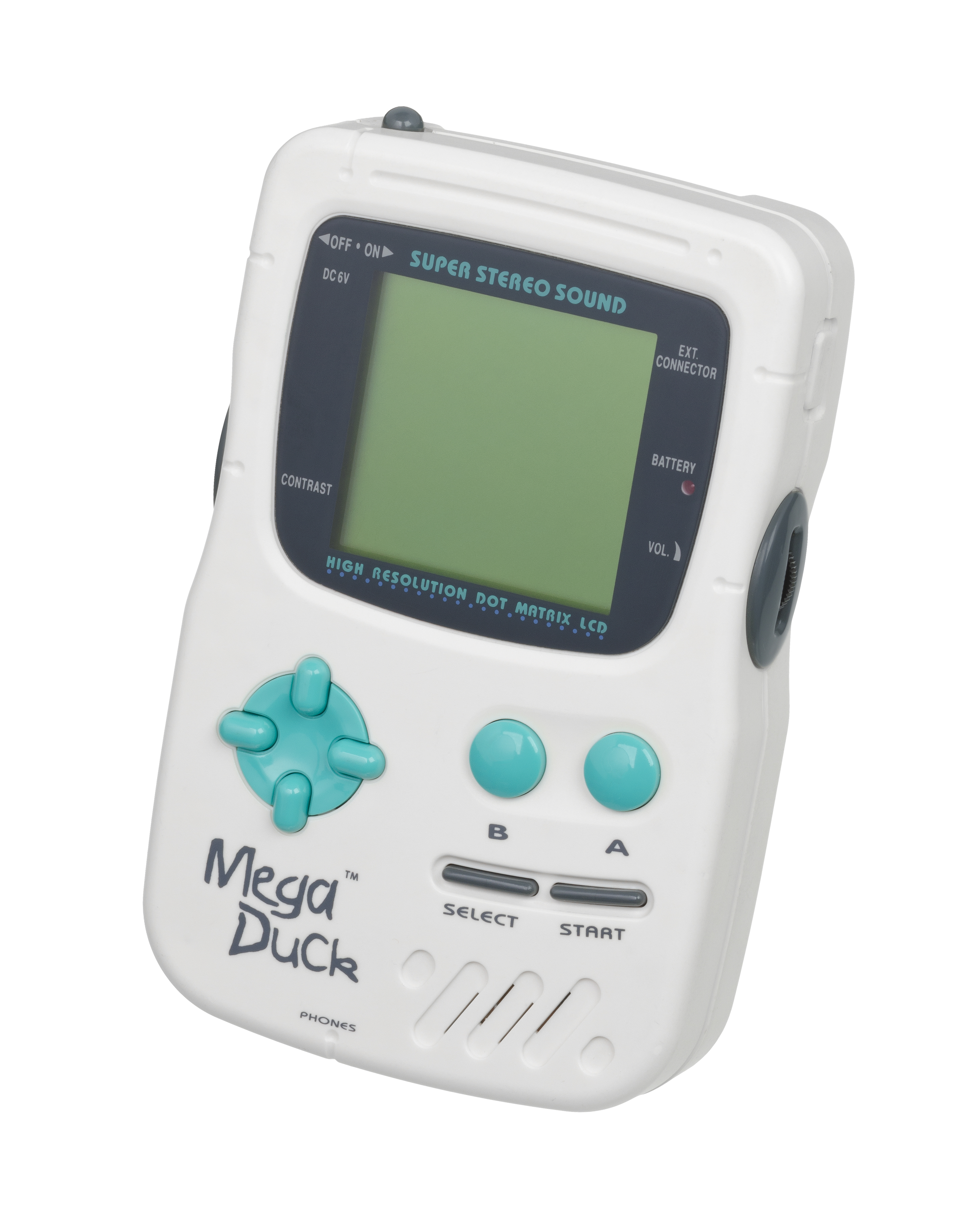 The Mega Duck, a handheld video game console similar to the Nintendo Game Boy that was released worldwide under a variety of branding/names starting in 1993.